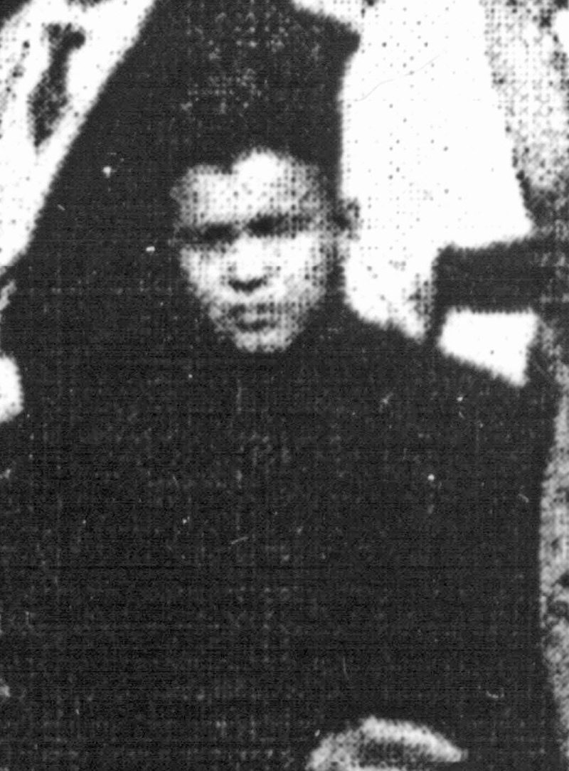 Deacon Evangeli Lu